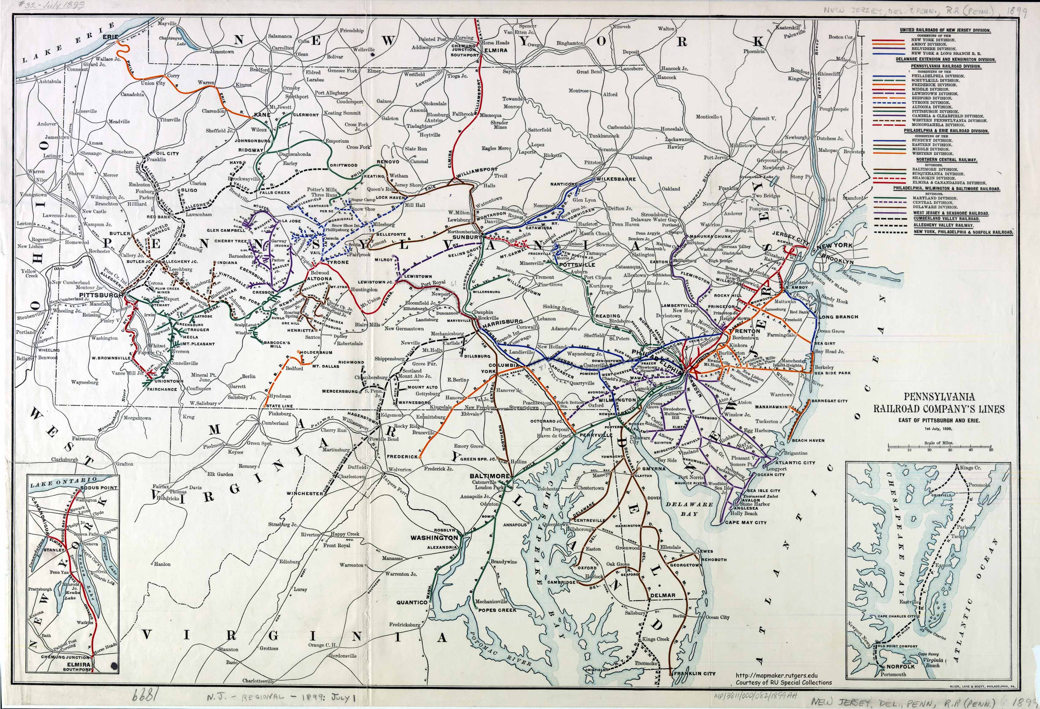 1899 map of the Pennsylvania Railroad